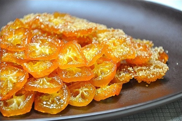 geumgyul jeonggwa (kumquat sweet)